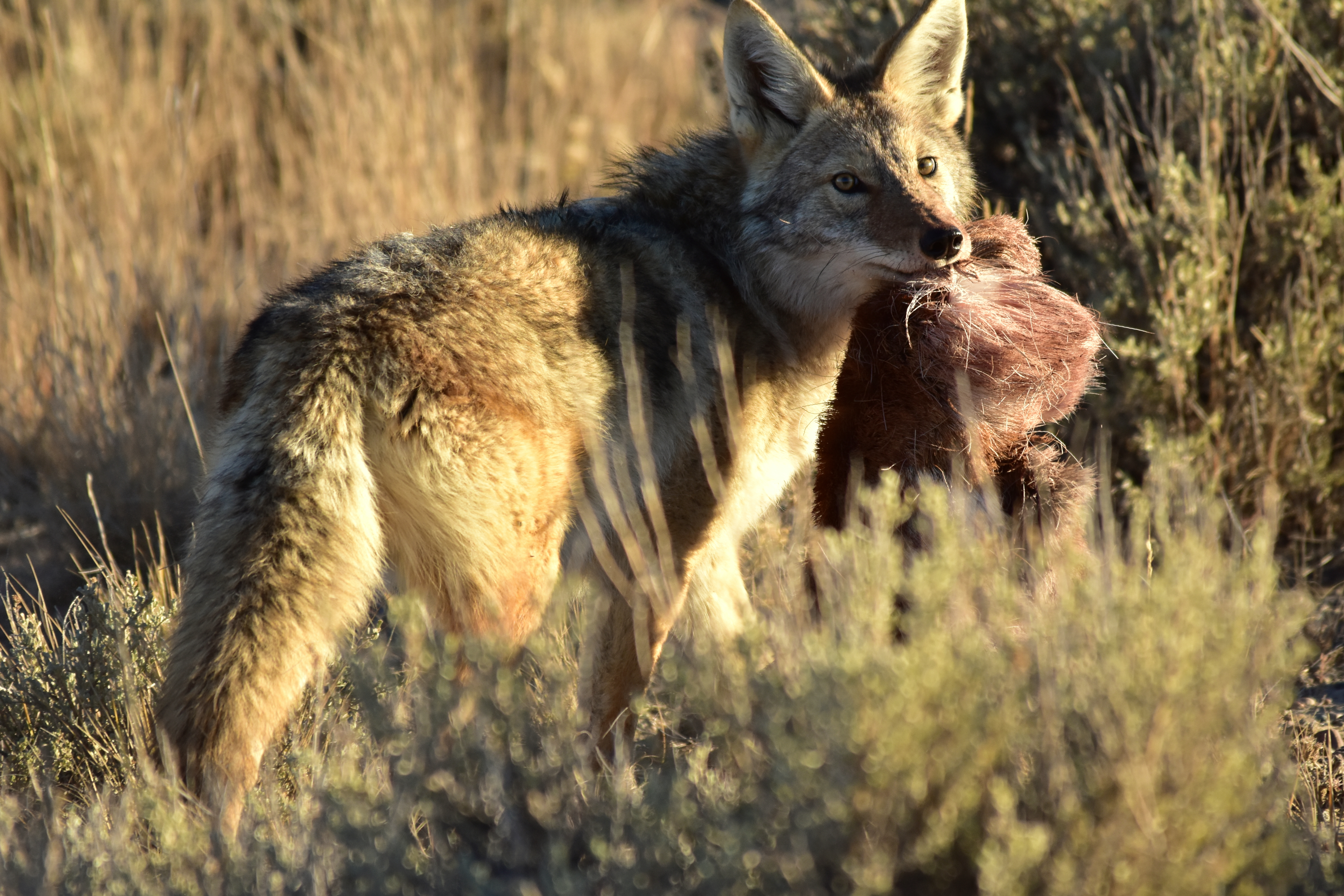 A coyote returns for the last scraps of a road killed pronghorn. Photo: Tom Koerner/USFWS